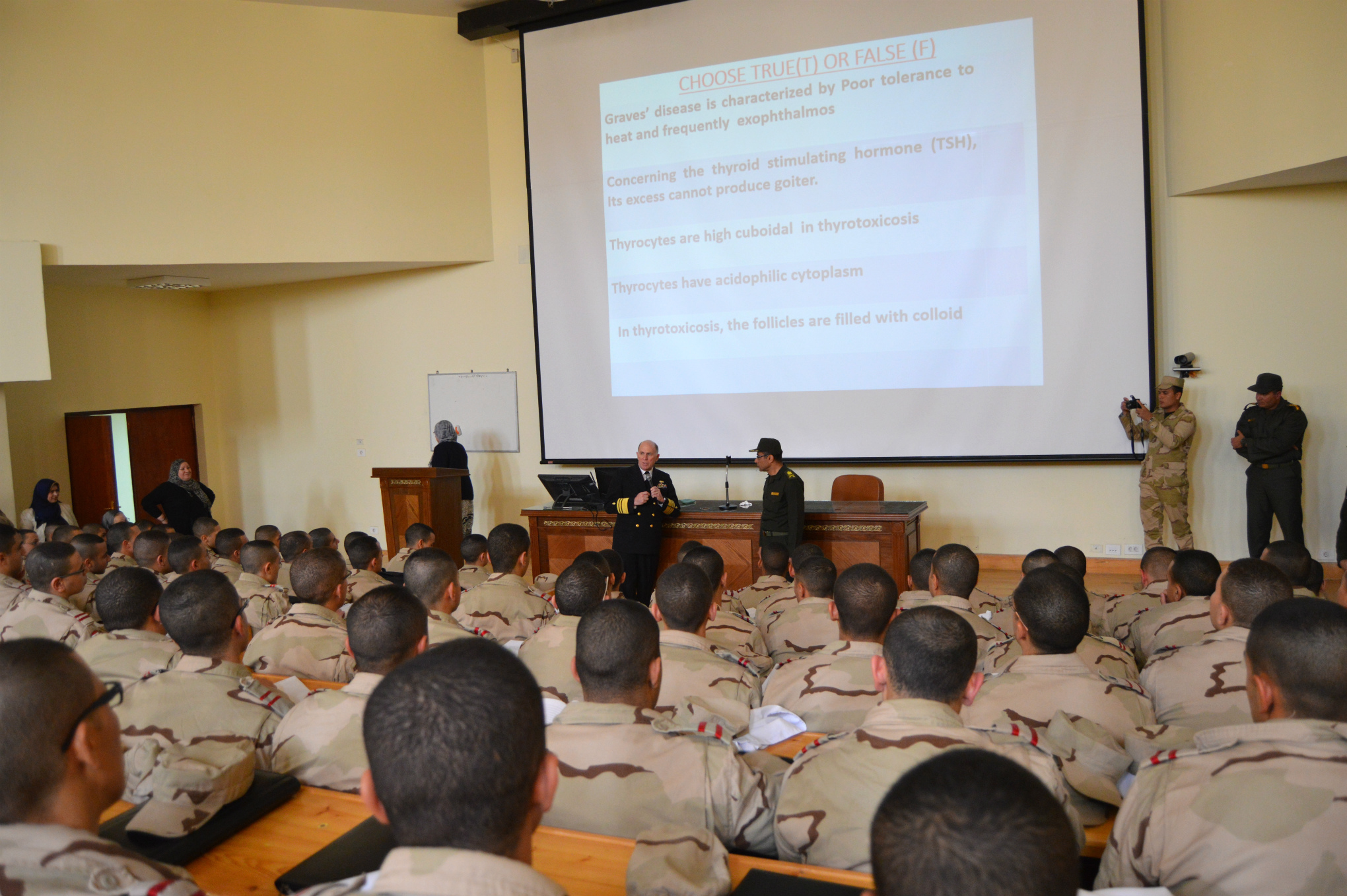 Vice Adm. Matthew L. Nathan, surgeon general of the Navy and chief, U.S. Navy Bureau of Medicine and Surgery speaks to medical students at the Armed Forces College of Medicine in Cairo. Nathan was in Egypt to discuss advances in military medicine and the importance of medical engagements.